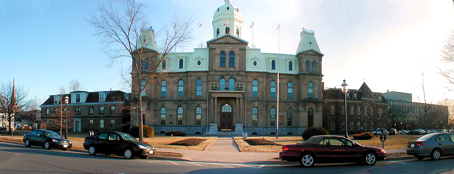 Legislature Building Fredericton, New Brunswick April 2005.